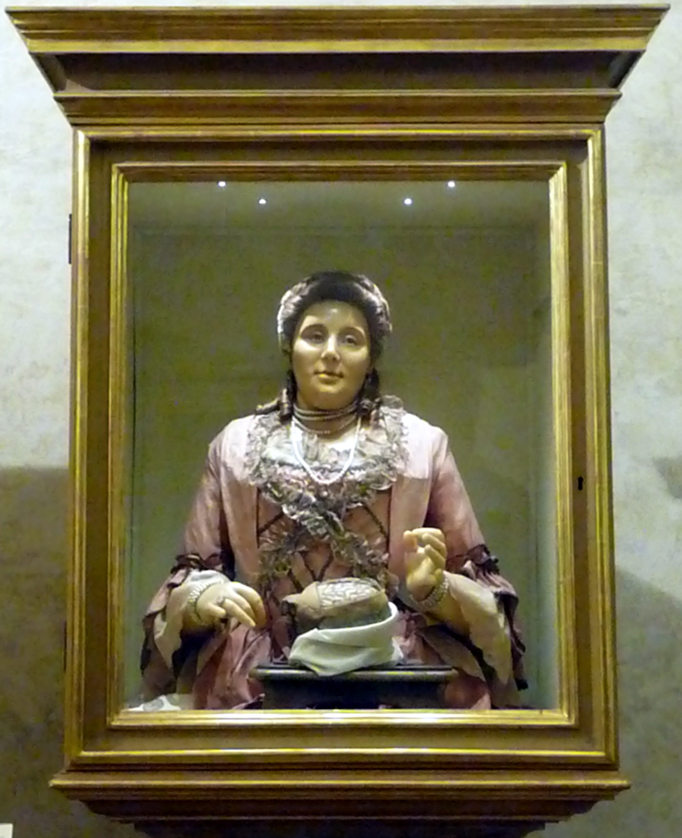 Selfportrait of Anna Morandi Mazzolini. Museo di Palazzo Poggi, Università di Bologna